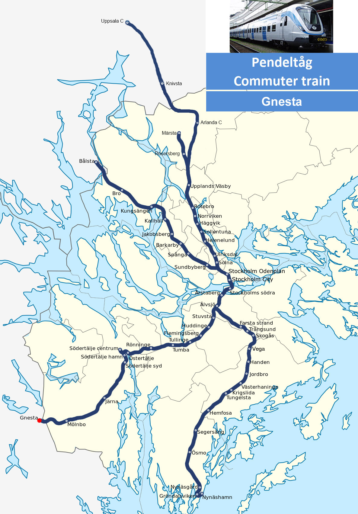 Gnesta station map